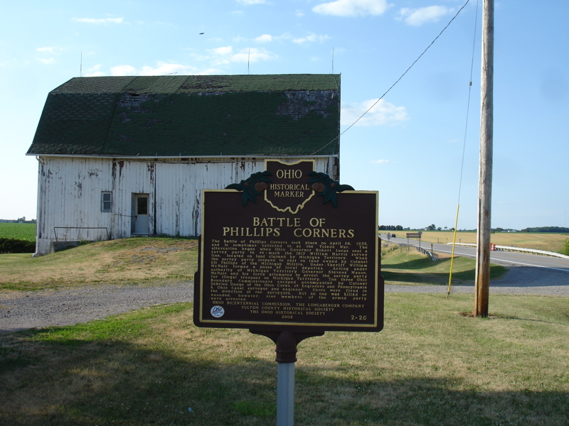 This is a wide shot of the Ohio Historical Marker for the Battle of Phillips Corner, which was part of the Boundary Dispute between Michigan and Ohio. That dispute is often called "The Toledo War."